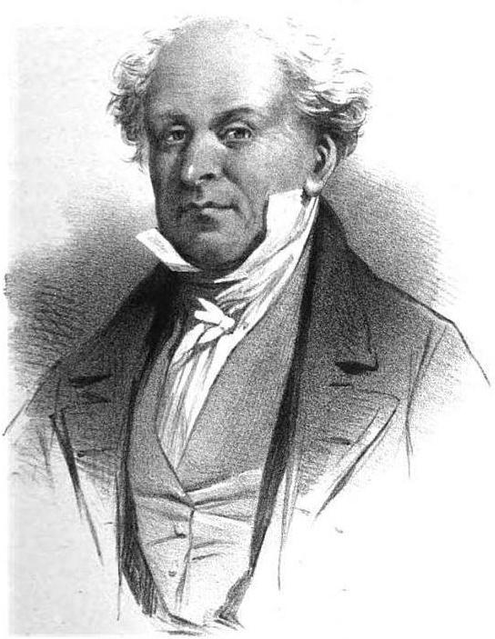 Portrait of A. Pugin, Sen., from recollection, by Joseph Nash